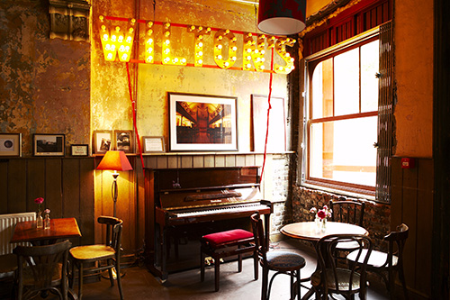 The Mahogany Bar at Wilton's Music Hall, 2010. Photograph by James Perry.